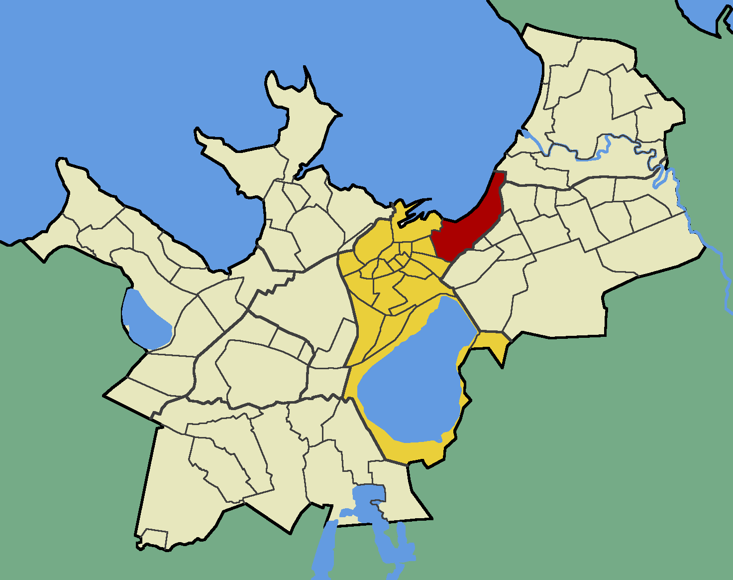 Map of Tallinn (Estonia) with borders of the quarters, Kesklinn district and Kadriorg quarter emphasised